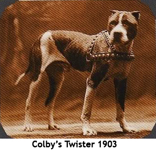 Colby's Twister was the son of Colby's Pincher. He won for John P.Colby on November 19, 1906, when he defeated Parson's Jim Big Boy in 42 min. at Boxford, Mass. Born in 1903. Weight 54 pounds. Brindle and White.